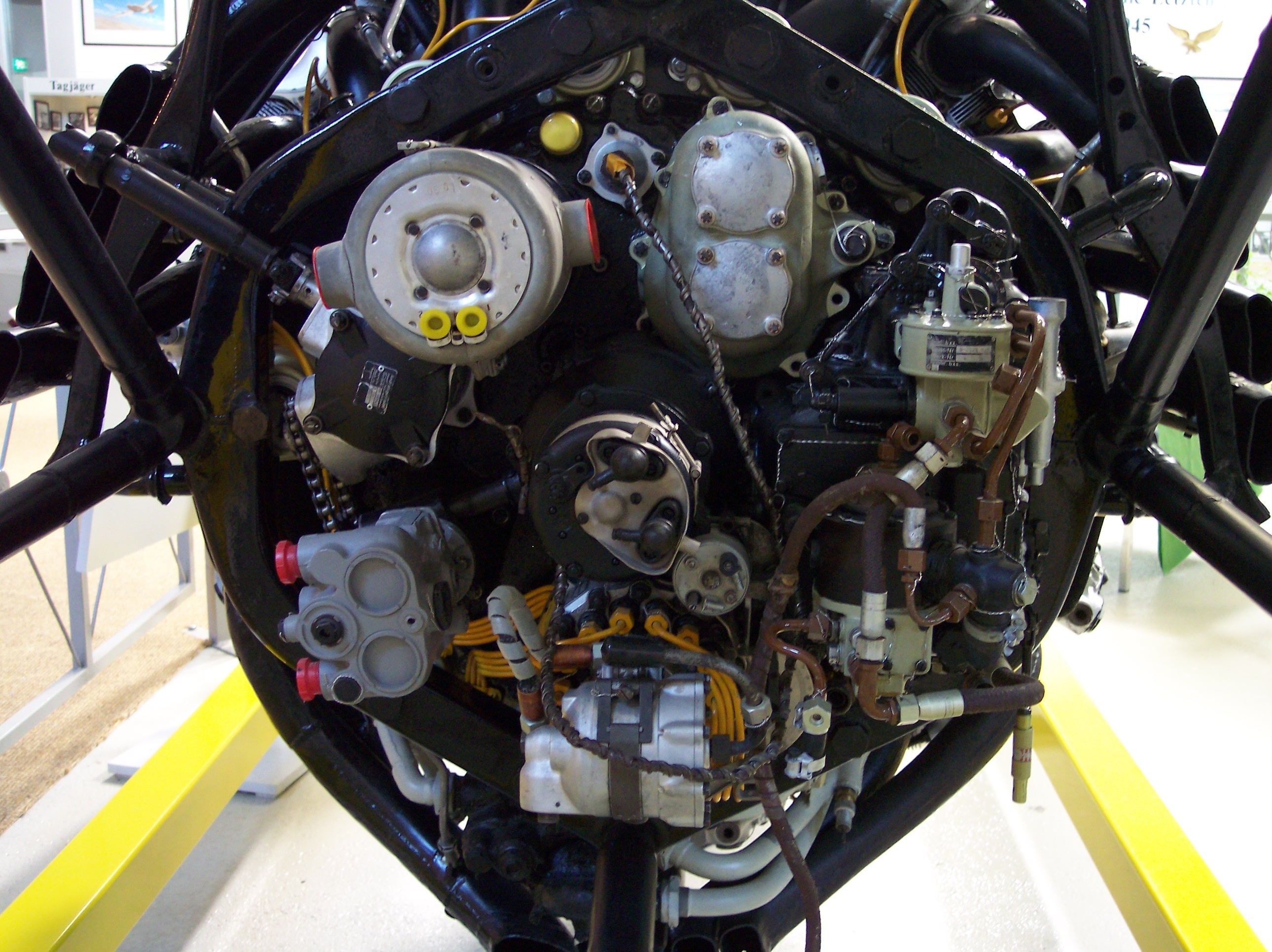 BMW 801 Radial engine